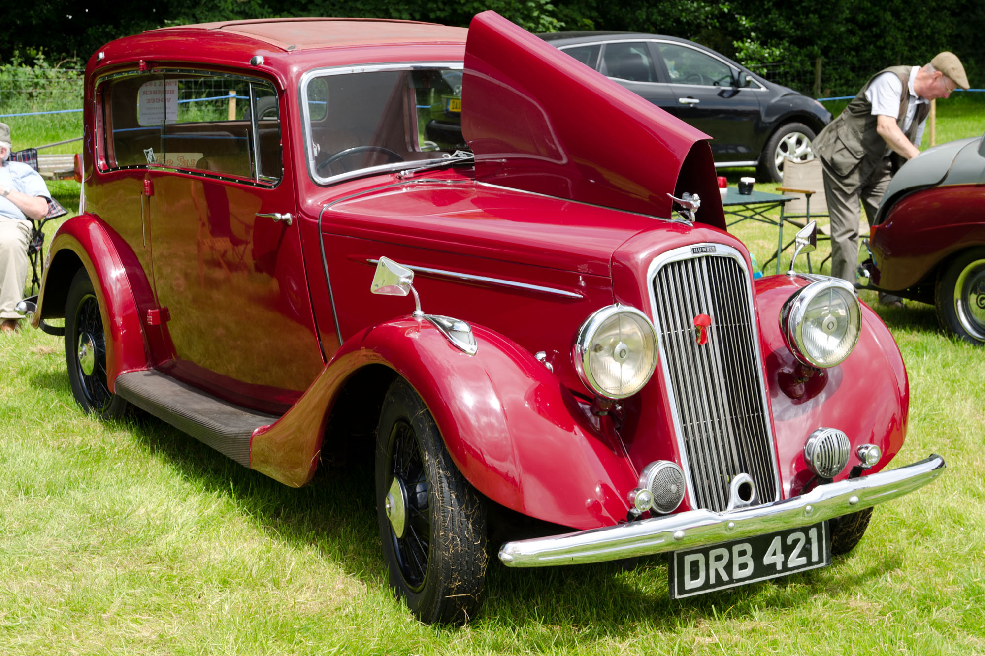 1937 Humber Twelve Vogue pillarless saloon (DVLA) made 1937, 1669 cc Hoghton Tower Classic Car show 22/06/2014